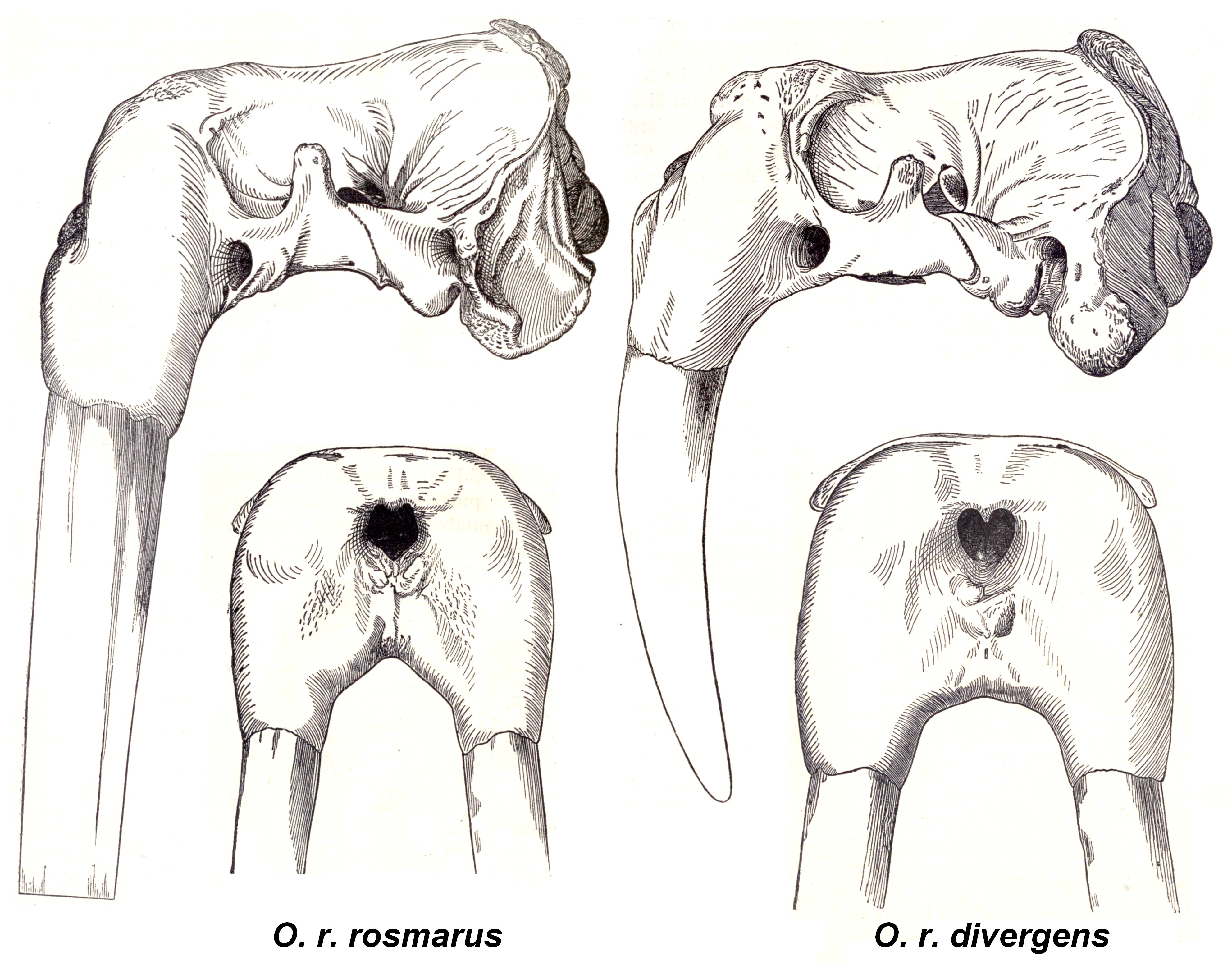 Walruses supspecies by skull